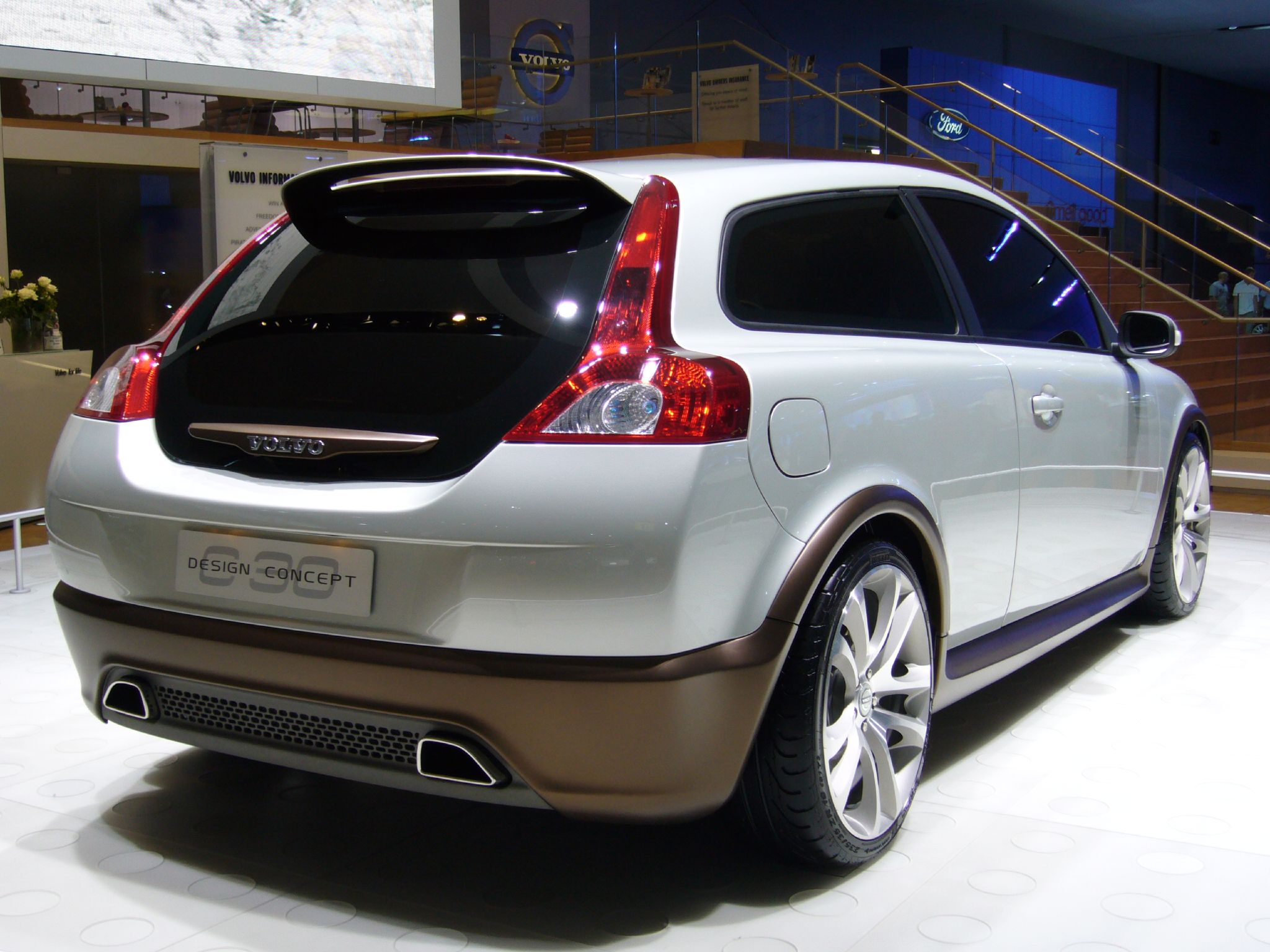 Although billed as a concept, this is likely to look very much like the finished article. I wasn't sure about the silver with brown trim, but it was quite a nice shape overall.